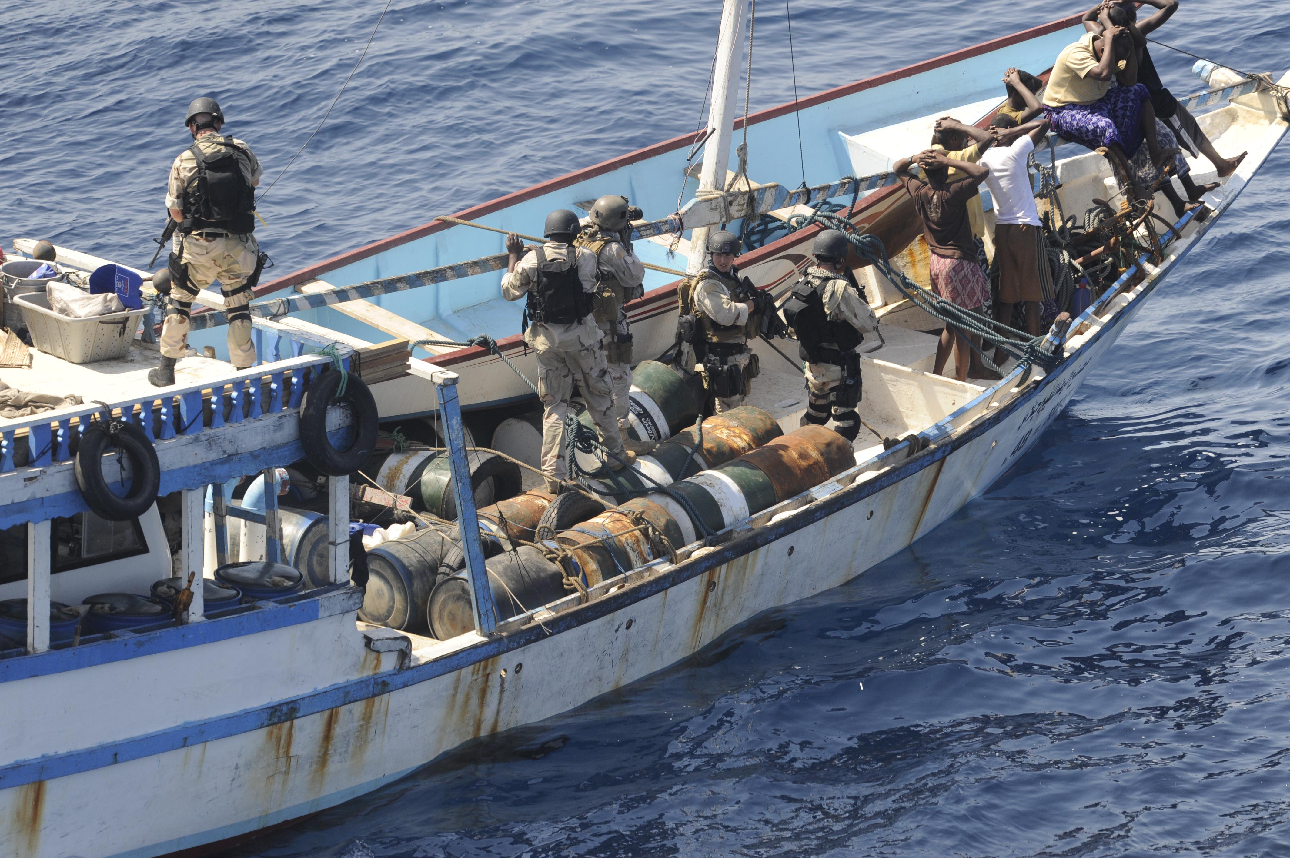 GULF OF ADEN (Nov. 12, 2009) Members of a visit, board, search and seizure team from the guided-missile cruiser USS Chosin (CG 65) keep watch over the crew of a suspected pirate dhow as fellow teammates conduct a search for weapons and other gear. The boarding was conducted as part of counter-piracy operations in the Gulf of Aden. Chosin is the flagship for Combined Joint Task Force 151, a multinational task force established to conduct counter-piracy operations off the coast of Somalia. (U.S. Navy photo by Mass Communication Specialist 1st Class Scott Taylor/Released)